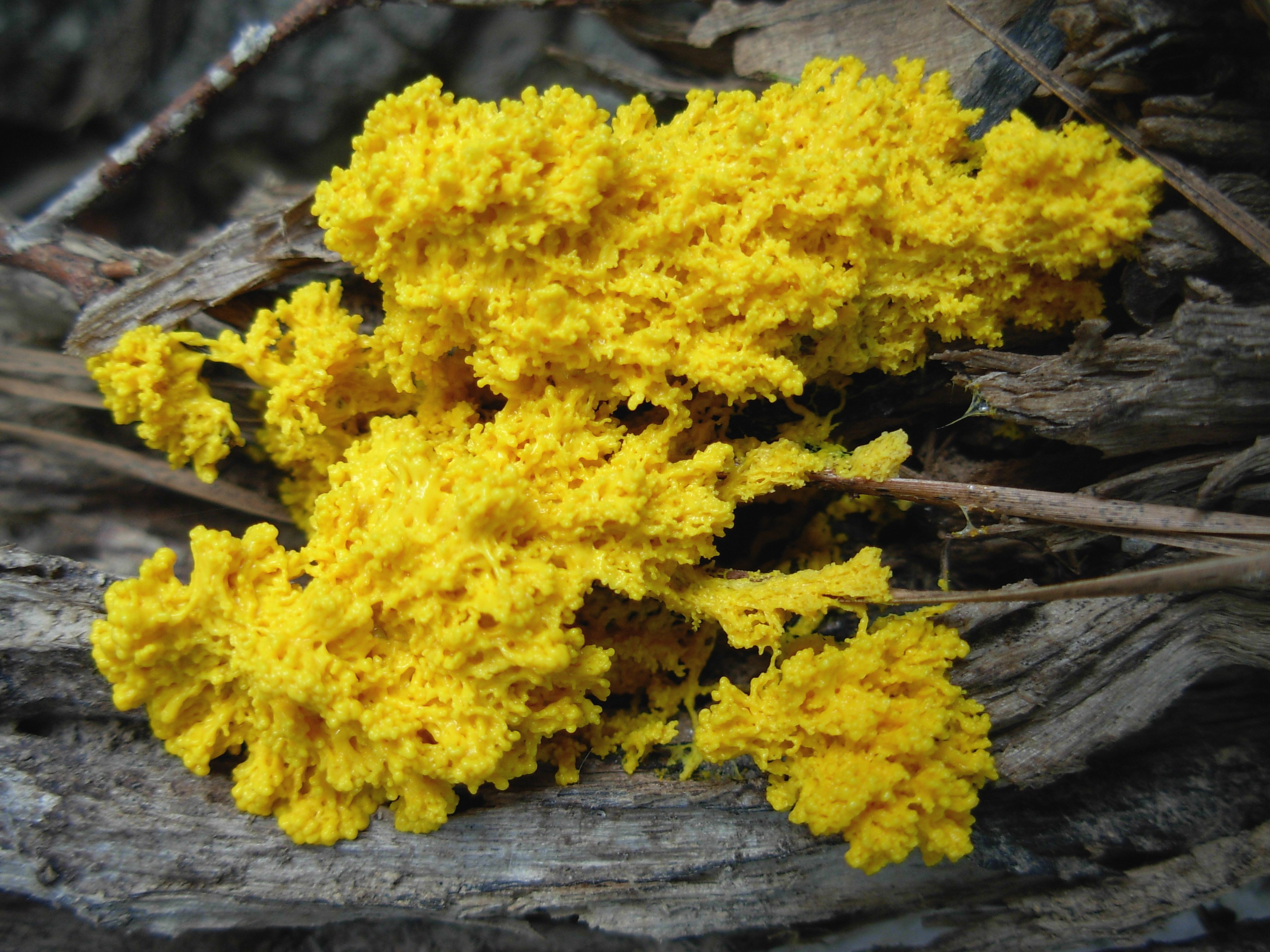 Slime mold on deadwood -- small culture; April, 2009; for estimate of dimensions, note dead pine needles.